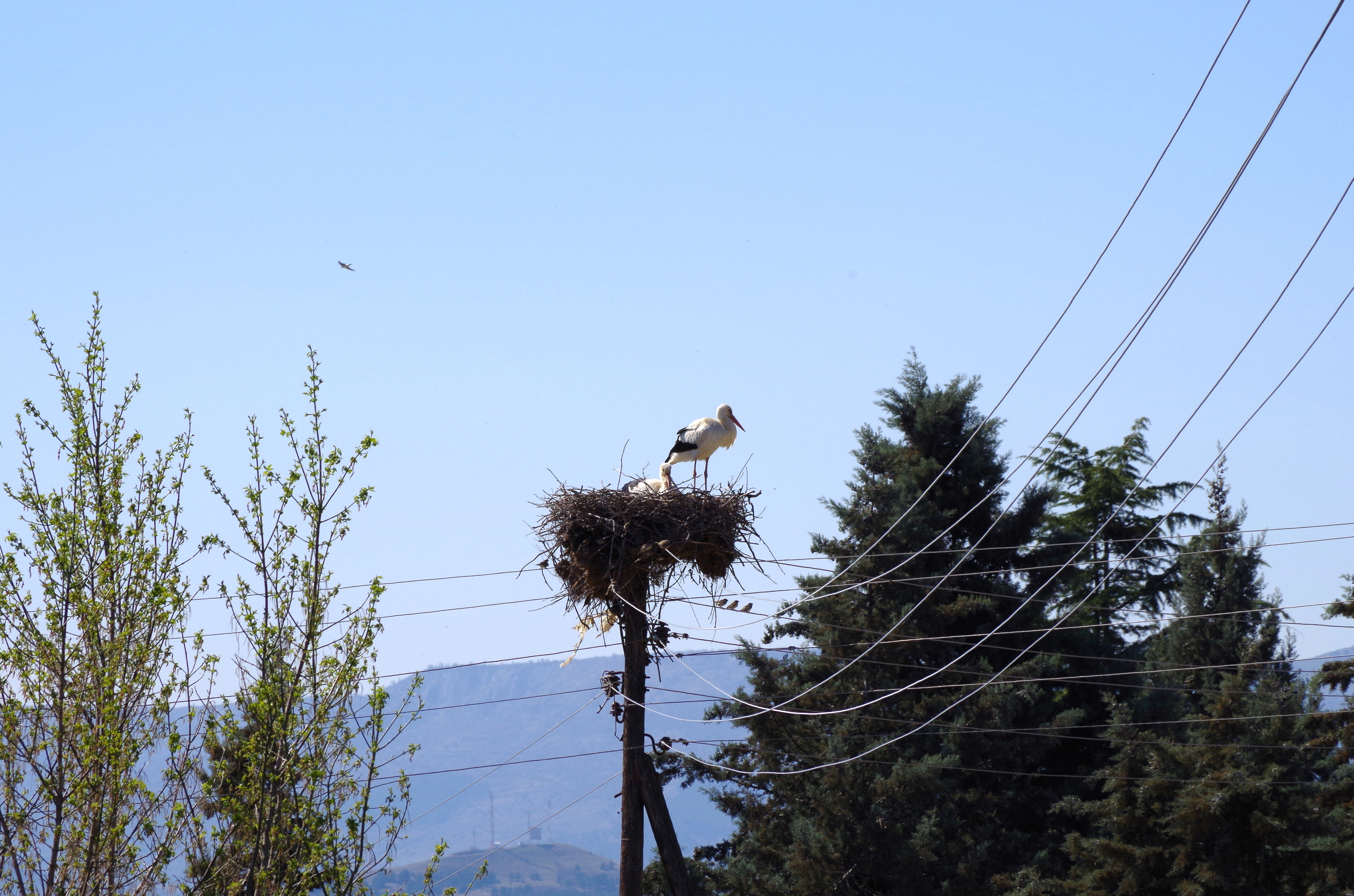 Украс на селата